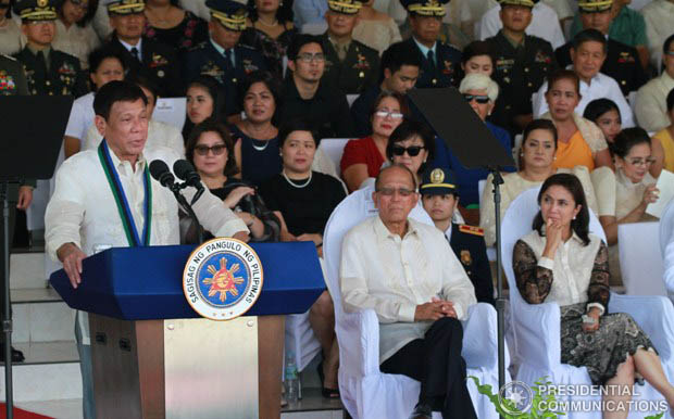 President Rodrigo R. Duterte delivers a speech during the turnover rites of the Armed Forces of the Philippines at Camp Aguinaldo on Friday where he discussed historical facts which led to the Mindanao problem and other issues relating to peace and order and the campaign for change towards ending hostilities with the CPP-NPA, MILF, and MNLF. (Photo by Marcelino Pascua/PCOO/photo)